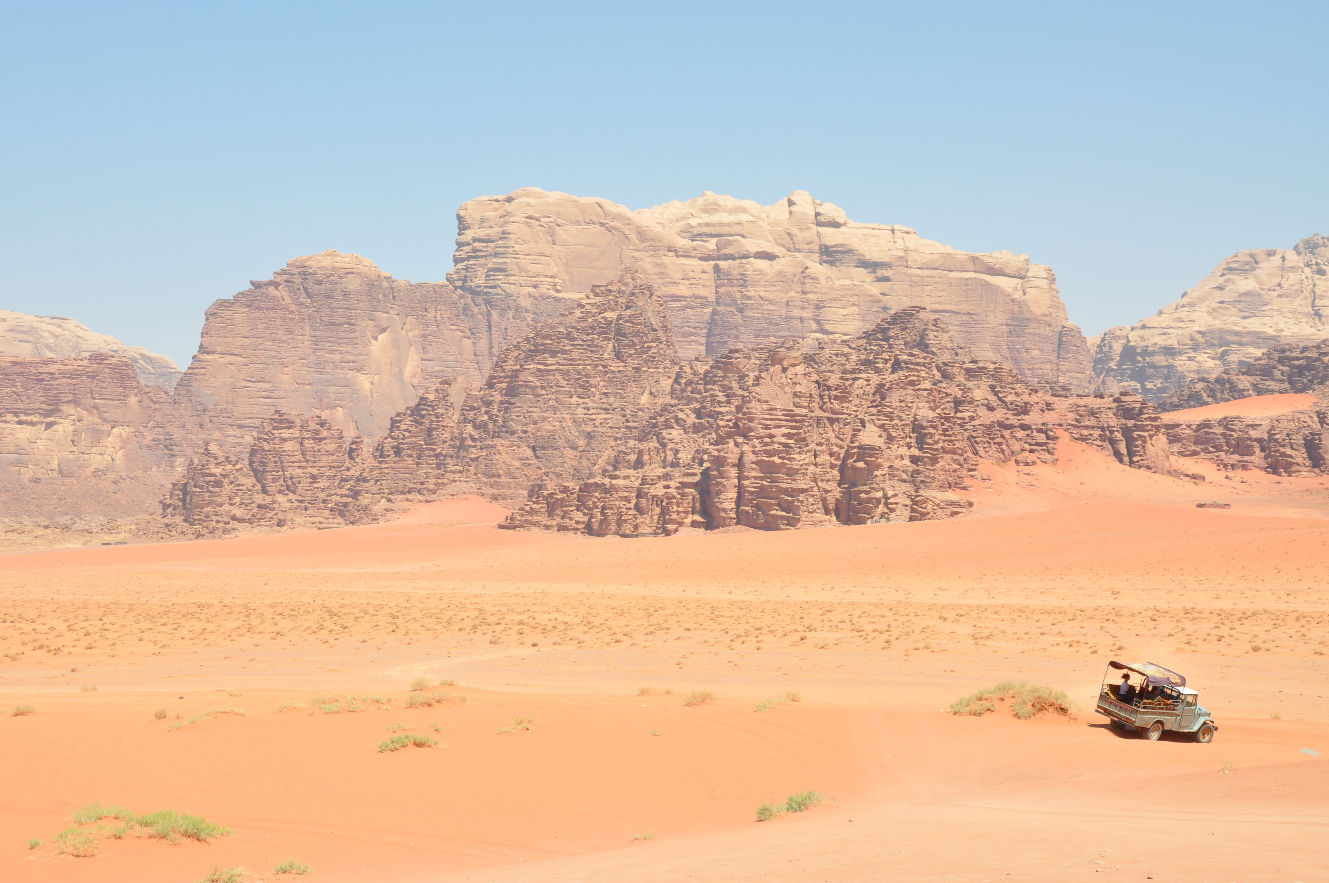 Wadi Rum also known as The Valley of the Moon is a valley cut into the sandstone and granite rock in southern Jordan 60 km (37 mi) to the east of Aqaba; it is the largest wadi in Jordan. The name Rum most likely comes from an Aramaic root meaning 'high' or 'elevated'. To reflect its proper Arabic pronunciation, archaeologists transcribe it as Wadi Ramm History Wadi Rum has been inhabited by many human cultures since prehistoric times, with many cultures–including the Nabateans–leaving their mark in the form of rock paintings, graffiti, and temples. In the West, Wadi Rum may be best known for its connection with British officer T. E. Lawrence, who passed through several times during the Arab Revolt of 1917–18. In the 1980s one of the rock formations in Wadi Rum was named "The Seven Pillars of Wisdom" after Lawrence's book penned in the aftermath of the war, though the 'Seven Pillars' referred to in the book have no connection with Rum. Geography The area is centered on the main valley of Wadi Rum. The highest elevation Jordan is Mount Um Dami at 1,840 m (6,040 ft) high, located 30 kilometers to the south of Wadi Rum village. It was first located by Difallah Ateeg, a Zalabia Bedouin from Rum. On a clear day, it is possible to see the Red Sea and the Saudi border from the top. Jabal Rum (1,734 metres (5,689 ft) above sea level) is the second highest peak in Jordan and the highest peak in the central Rum, rising directly above Rum valley opposite Jebel um Ishrin, which is possibly one metre lower. Khaz'ali Canyon in Wadi Rum is the site of petroglyphs etched into the cave walls depicting humans and antelopes dating back to the Thamudic times. The village of Wadi Rum itself consists of several hundred Bedouin inhabitants with their goat-hair tents and concrete houses and also their four wheel vehicles, one school for boys and one for girls, a few shops, and the headquarters of the Desert Patrol.